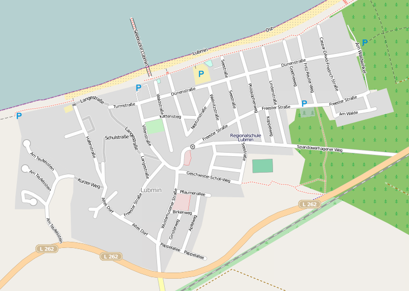 Map of Lubmin